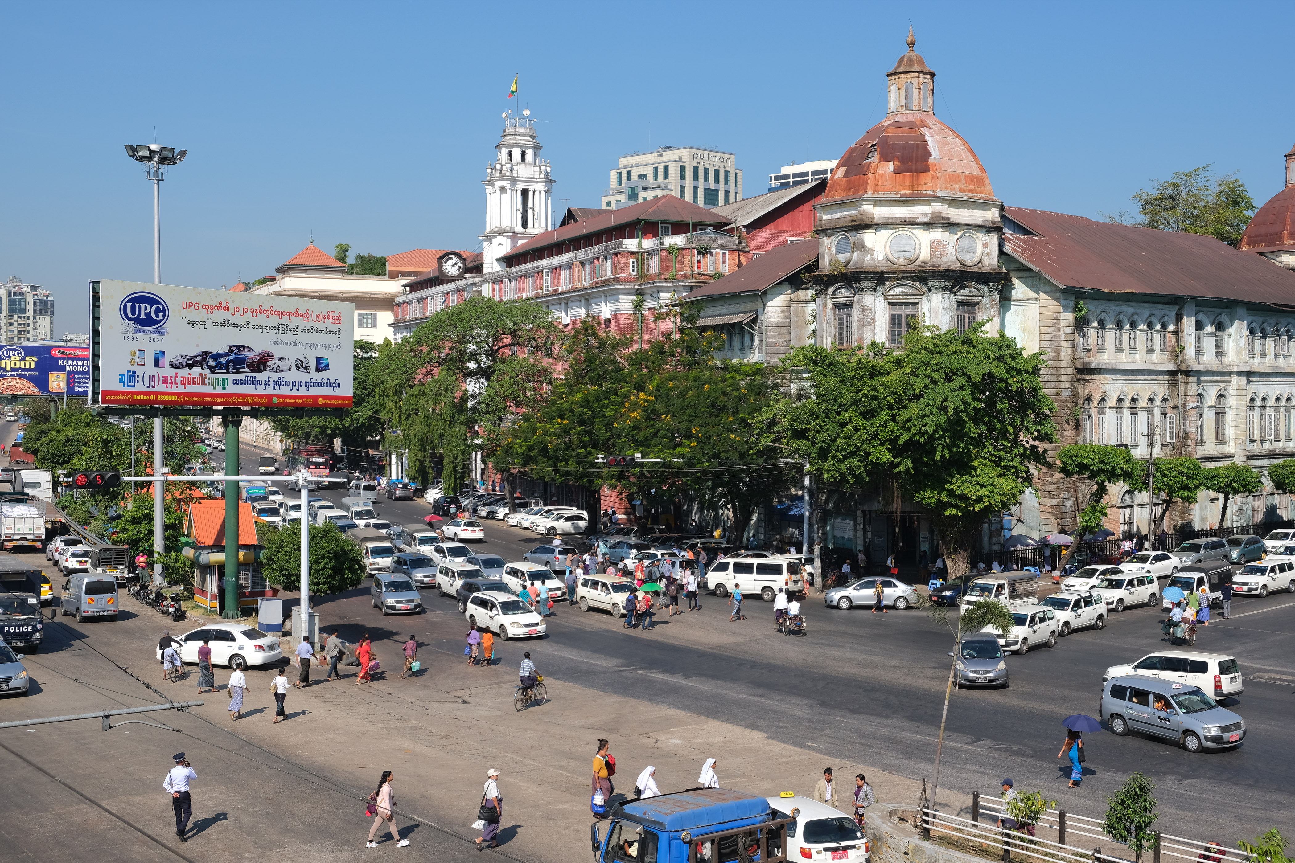 Yangon Divisional Court seen from Pansodan overpass.